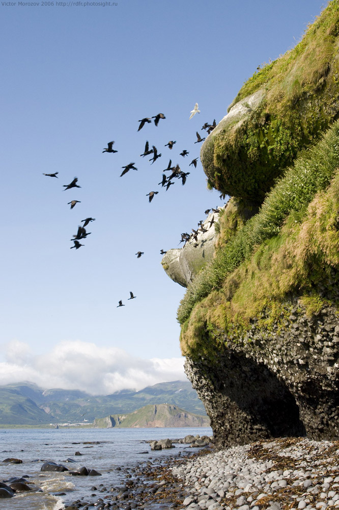 Cormorants on Shumshu island. Paramushir isaland and Severo-Kurilsk town at background